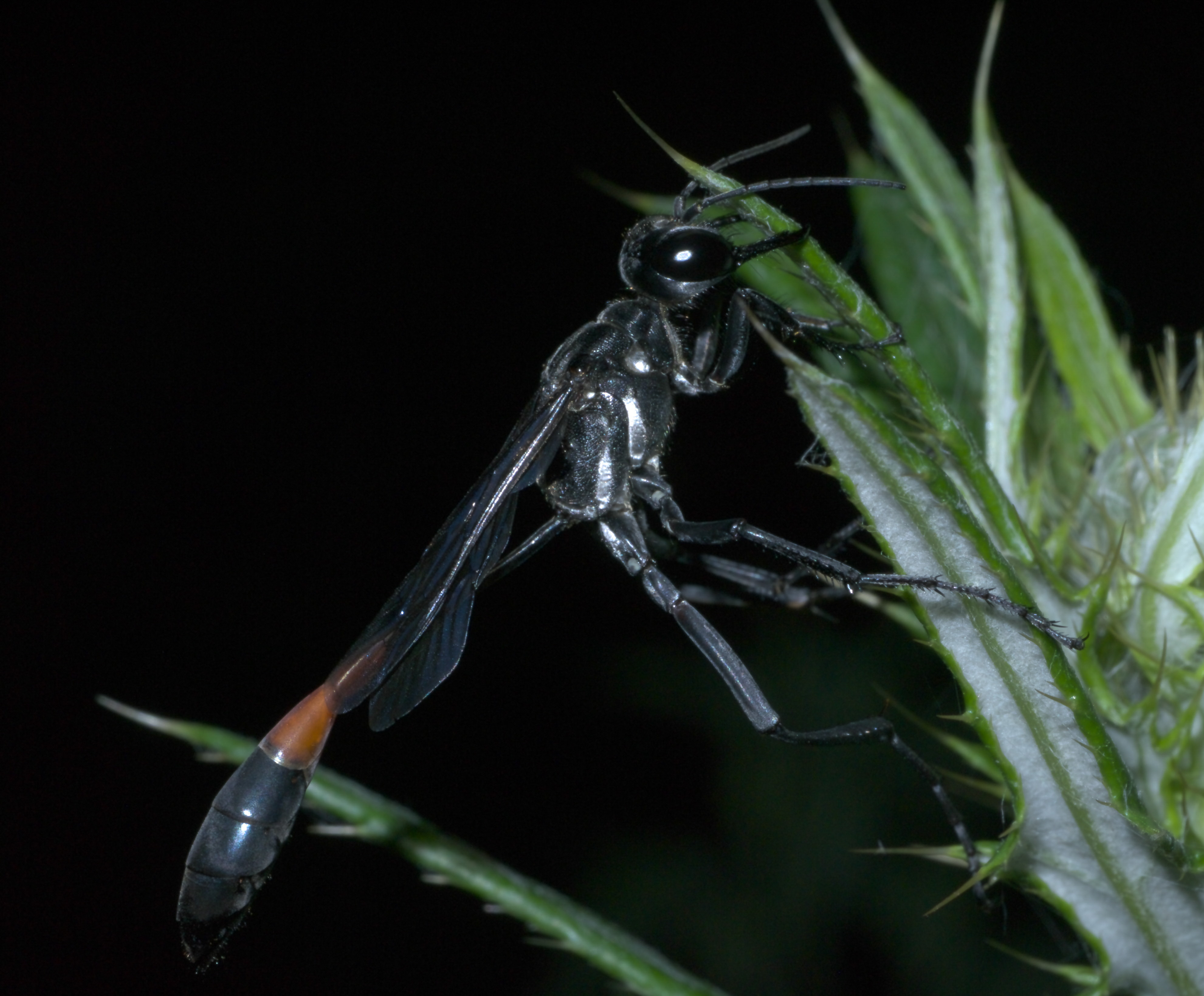 Ammophila procera, Family: Thread-waisted Wasps, ID Confidence: 87